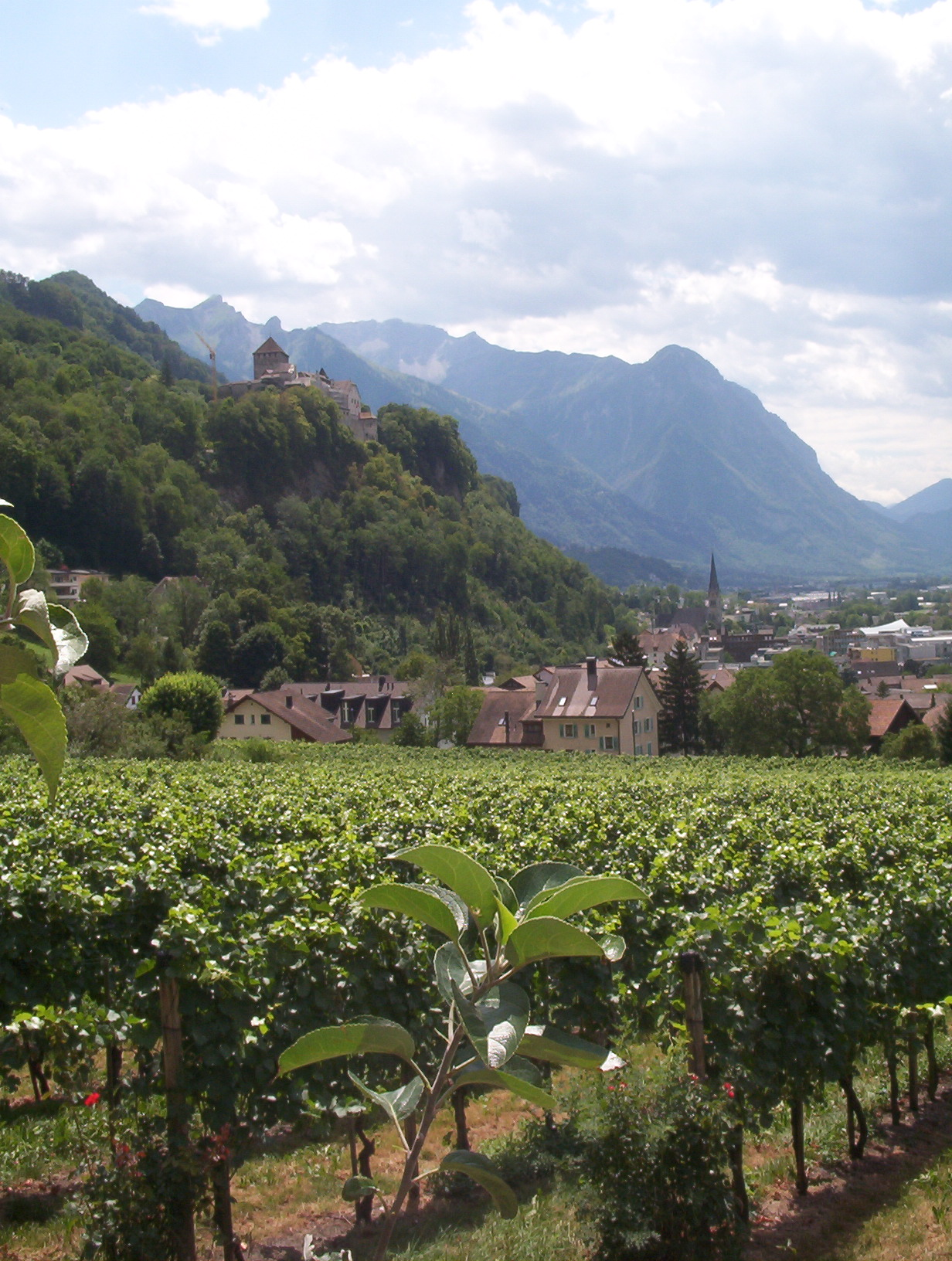 Schloss Vaduz, the home to the Prince of Liechtenstein. In the foreground are vineyards owned by the Prince. This photo was taken from the outskirts of Vaduz. Photographed by Ed Sexton in June 2006 (despite what the camera's meta data may say).